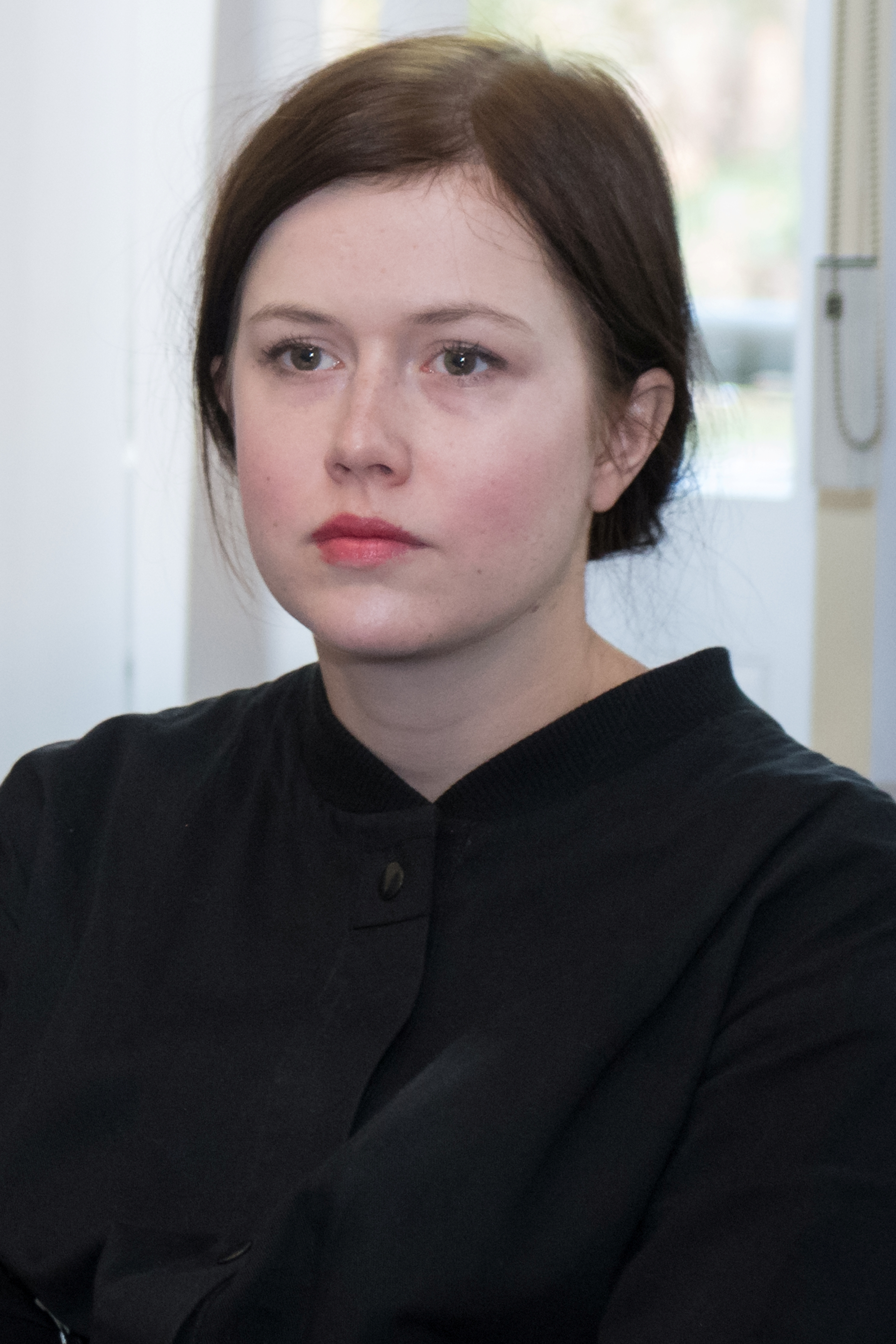 Kaarin KivirähkEesti: Kaarin Kivirähk